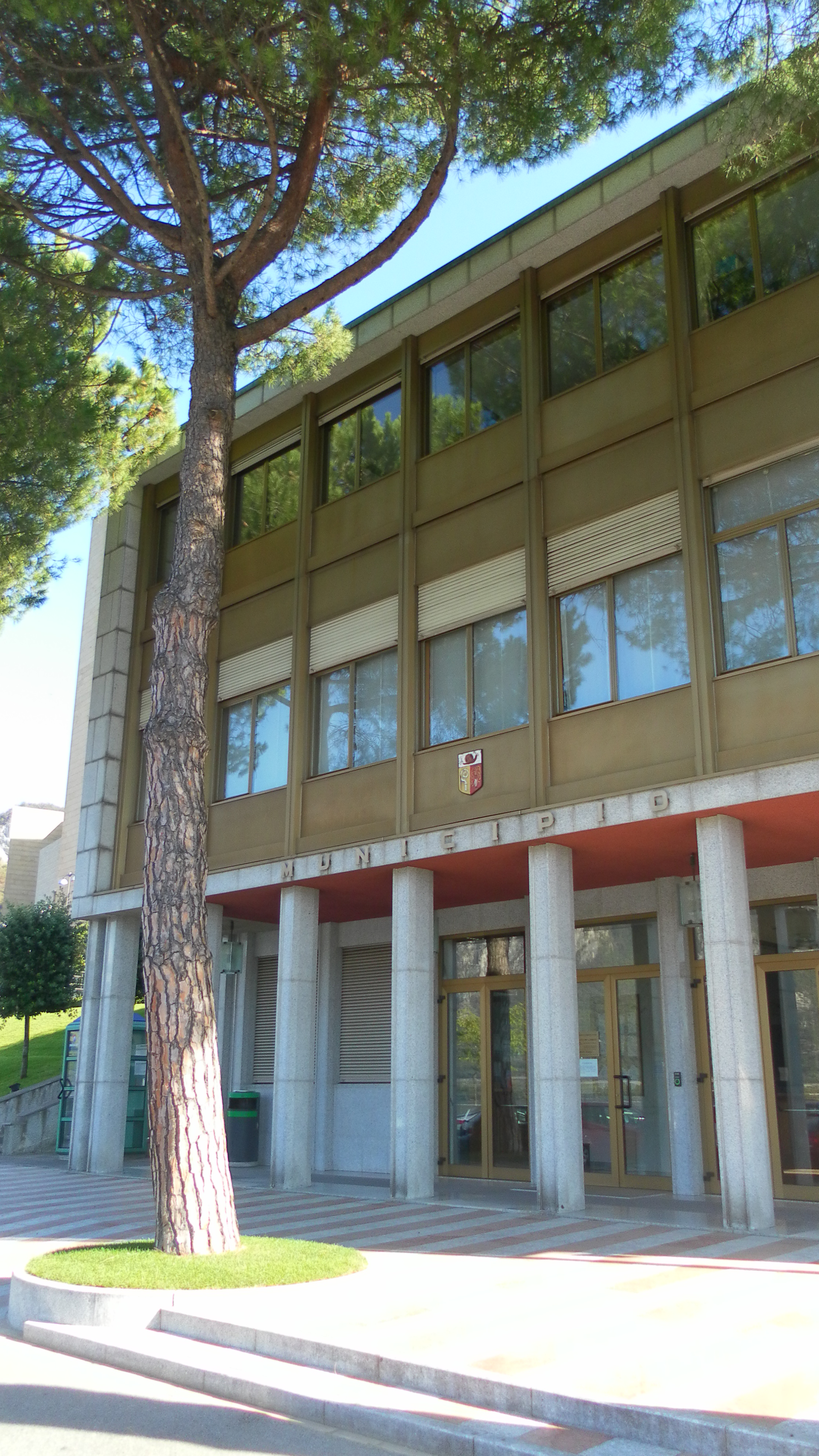 City Hall of Campione d'Italia (CO)